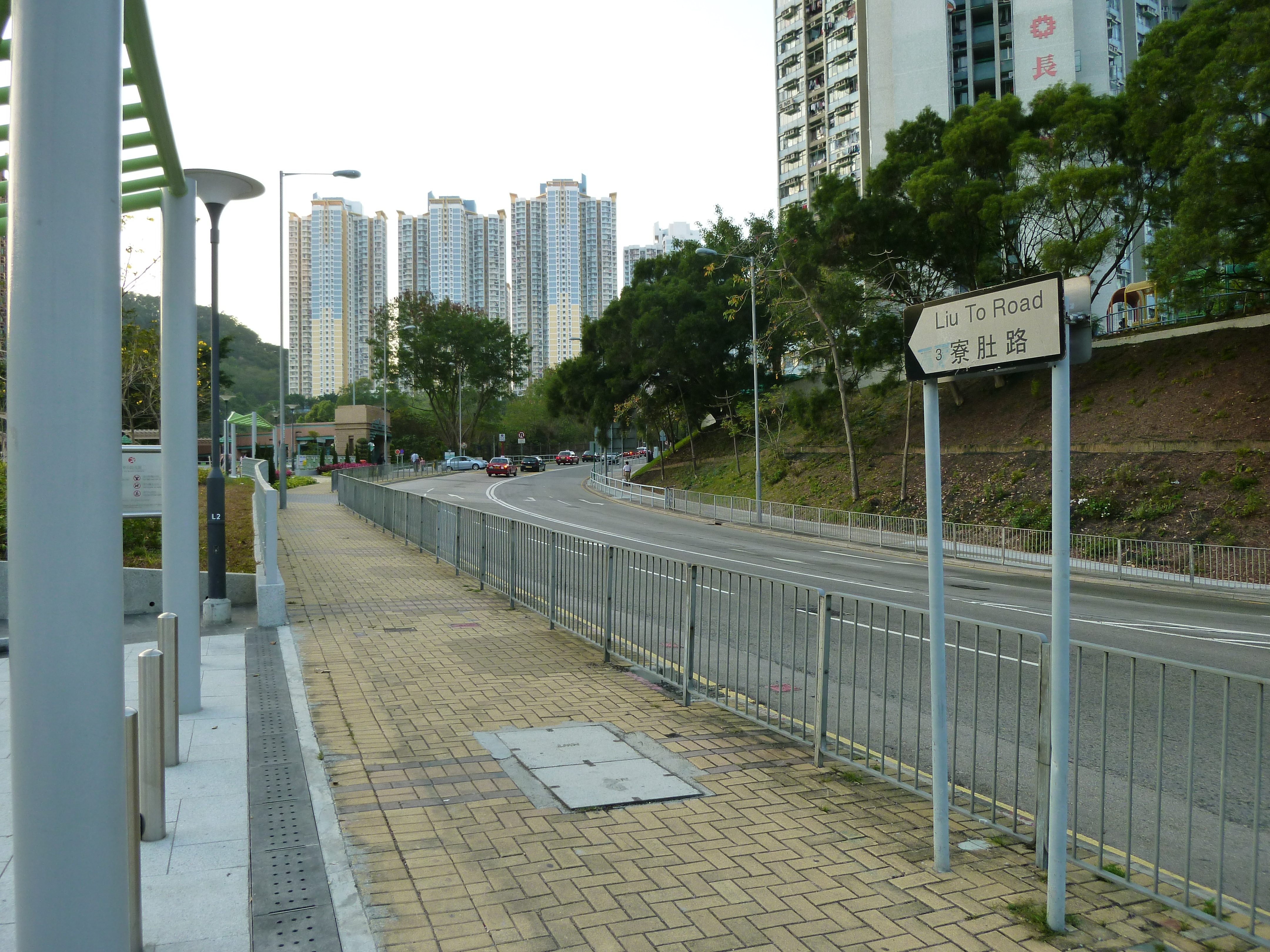 Liu To Road (Tsing Yi, Hong Kong)